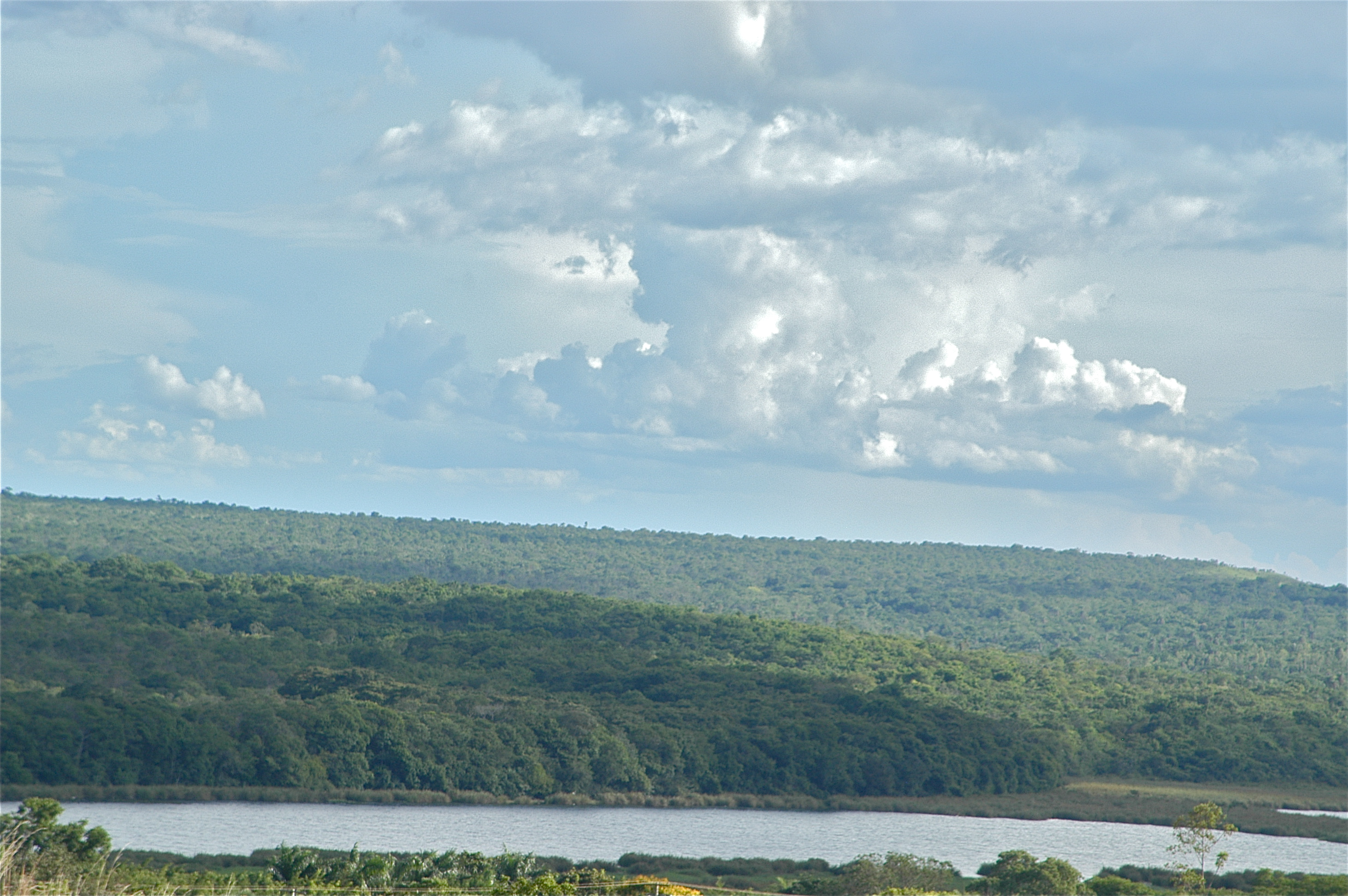 Lagoa Feia, a lake near Formosa, GO, Brazil